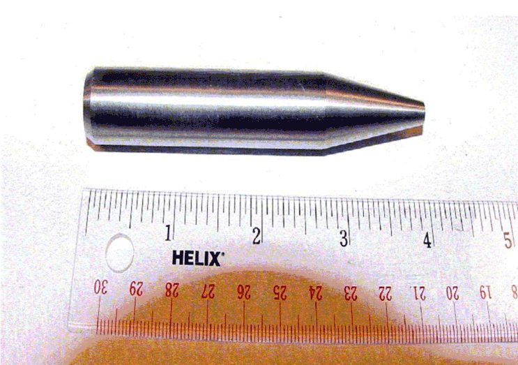 30mm Depleted Uranium penetrator for the GAU-8 Avenger.